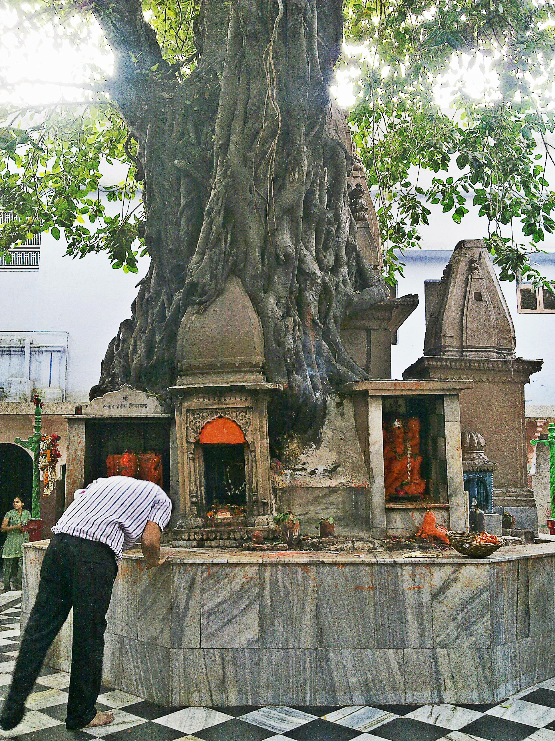 tree shrines in Sankata Devi temple courtyard, near Sankatha ghat 2015in05-1vrns_351